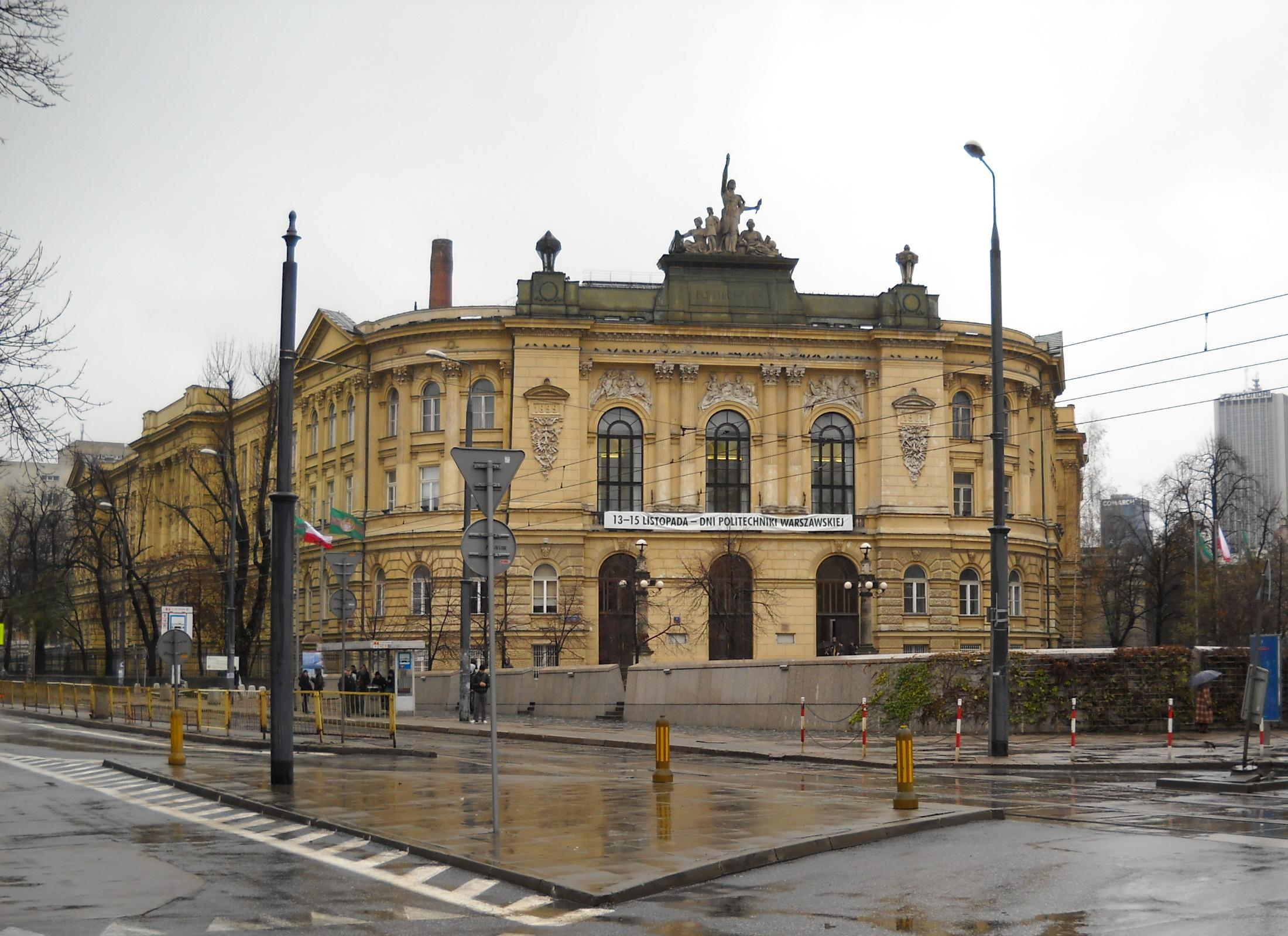 Warsaw University of Technology